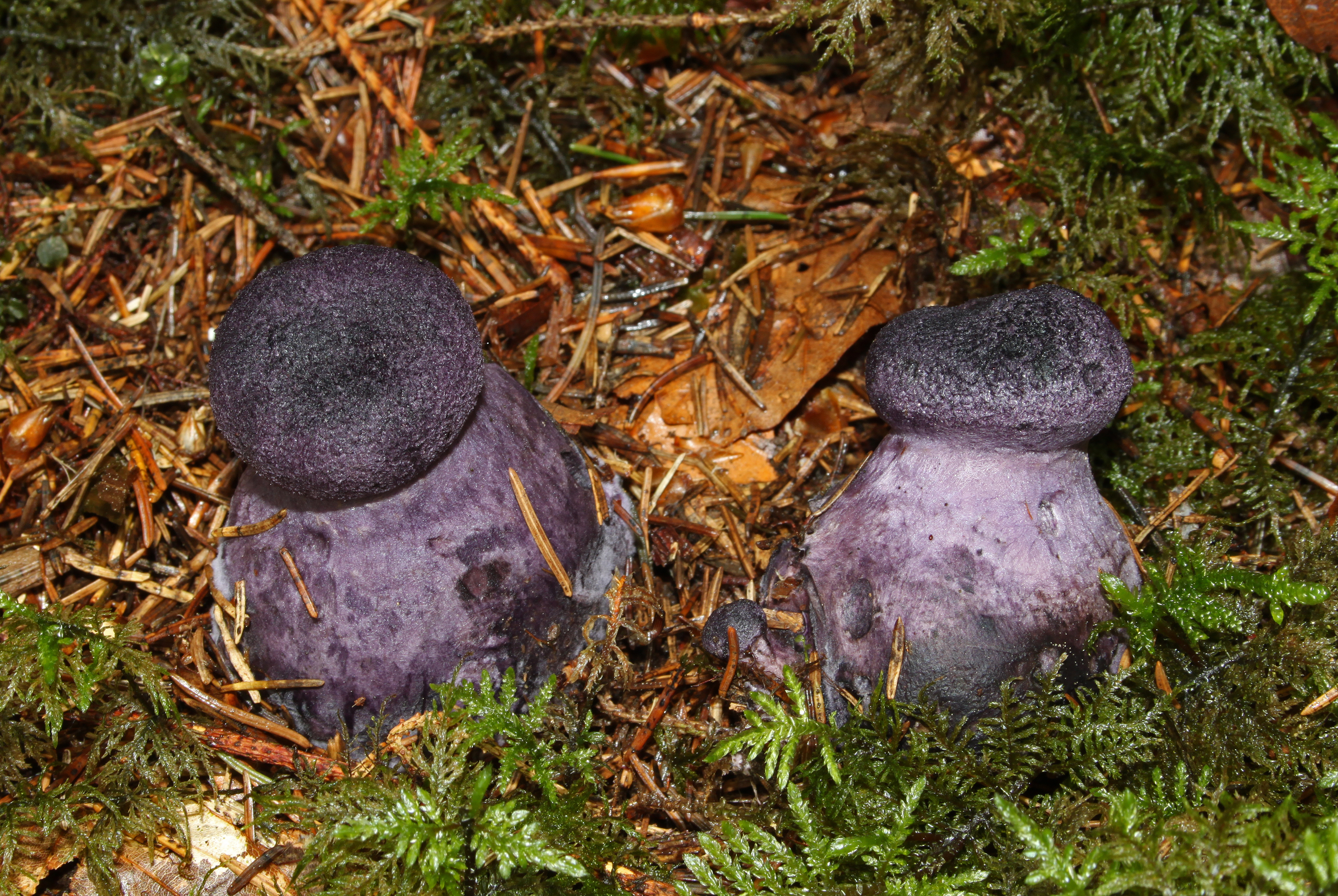 (Juvenile) Cortinarius violaceus, Family: Cortinariaceae, Location: Germany, Ulm, Eggingen